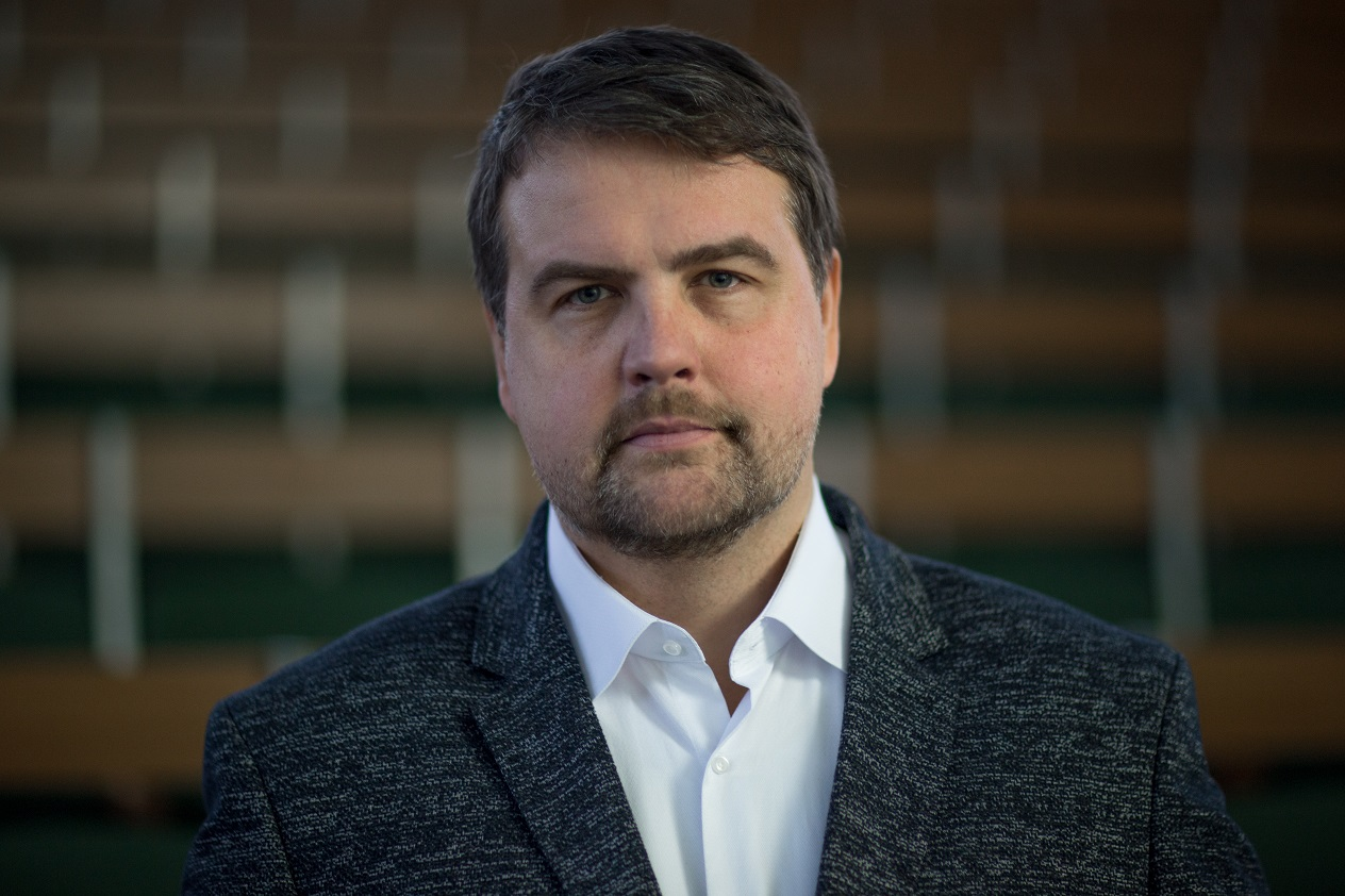 Ivars Ijabs in 2019